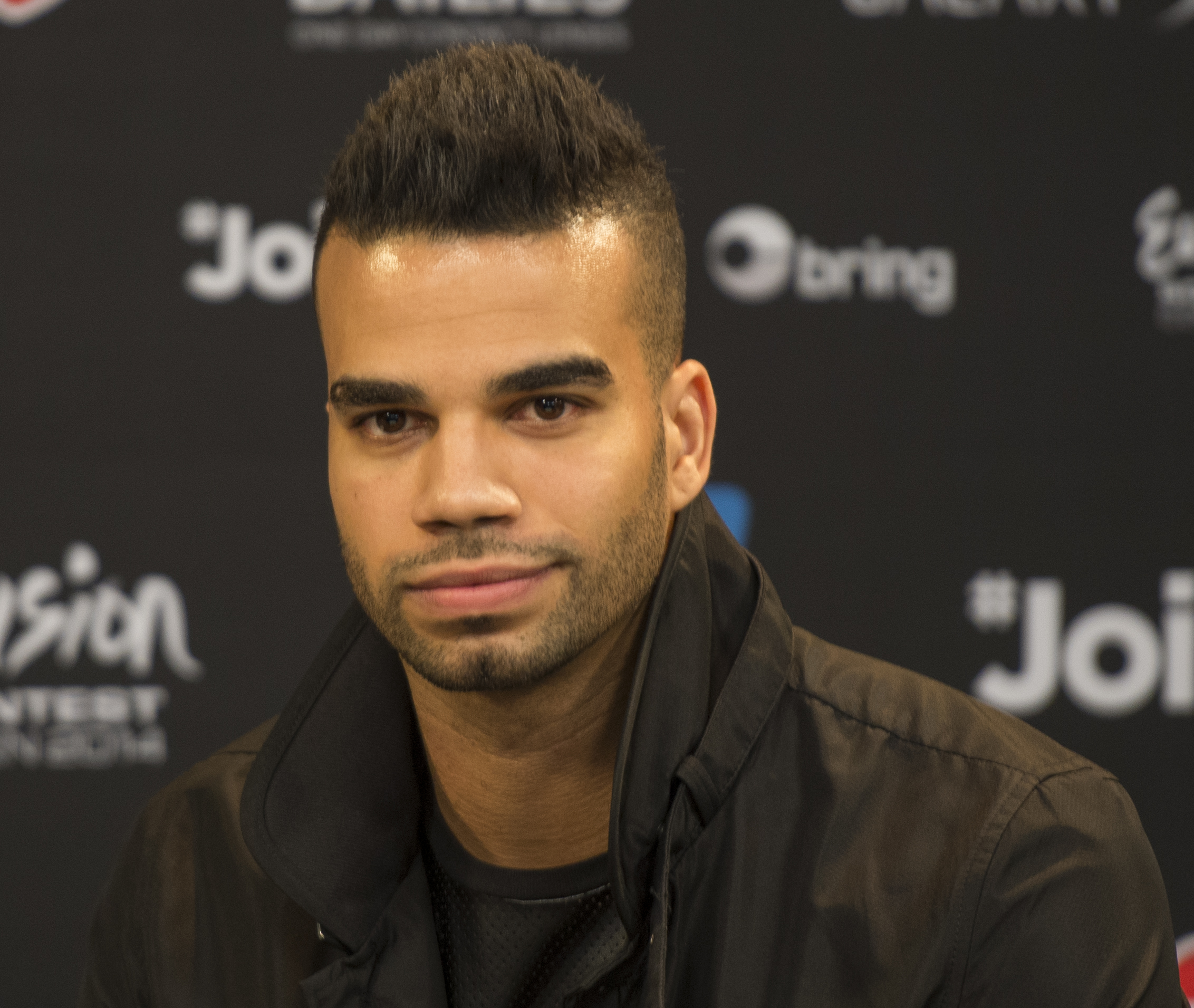 Kállay Saunders at a Meet & Greet during the Eurovision Song Contest 2014 Copenhagen. (Help translate this text)